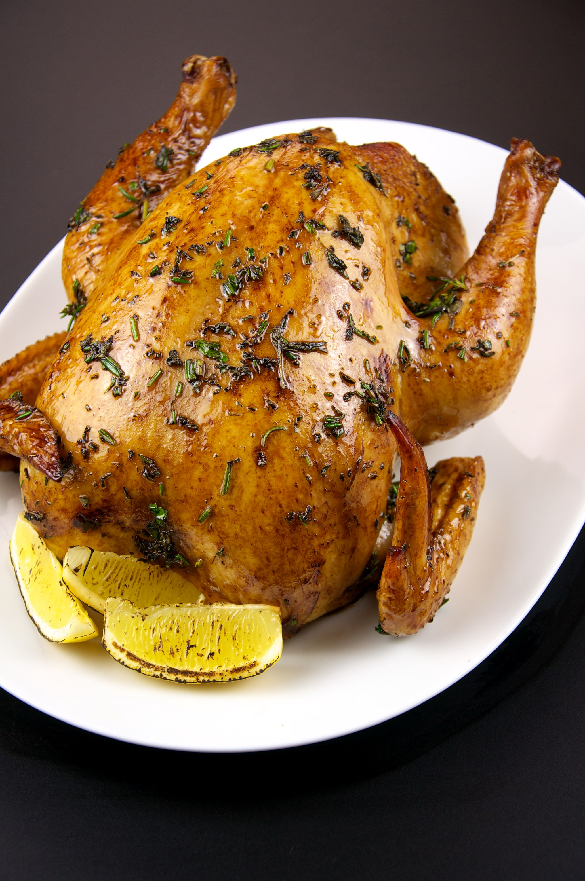 Roasted chicken.This photo is from the book 101 Chicken recipes availabe at